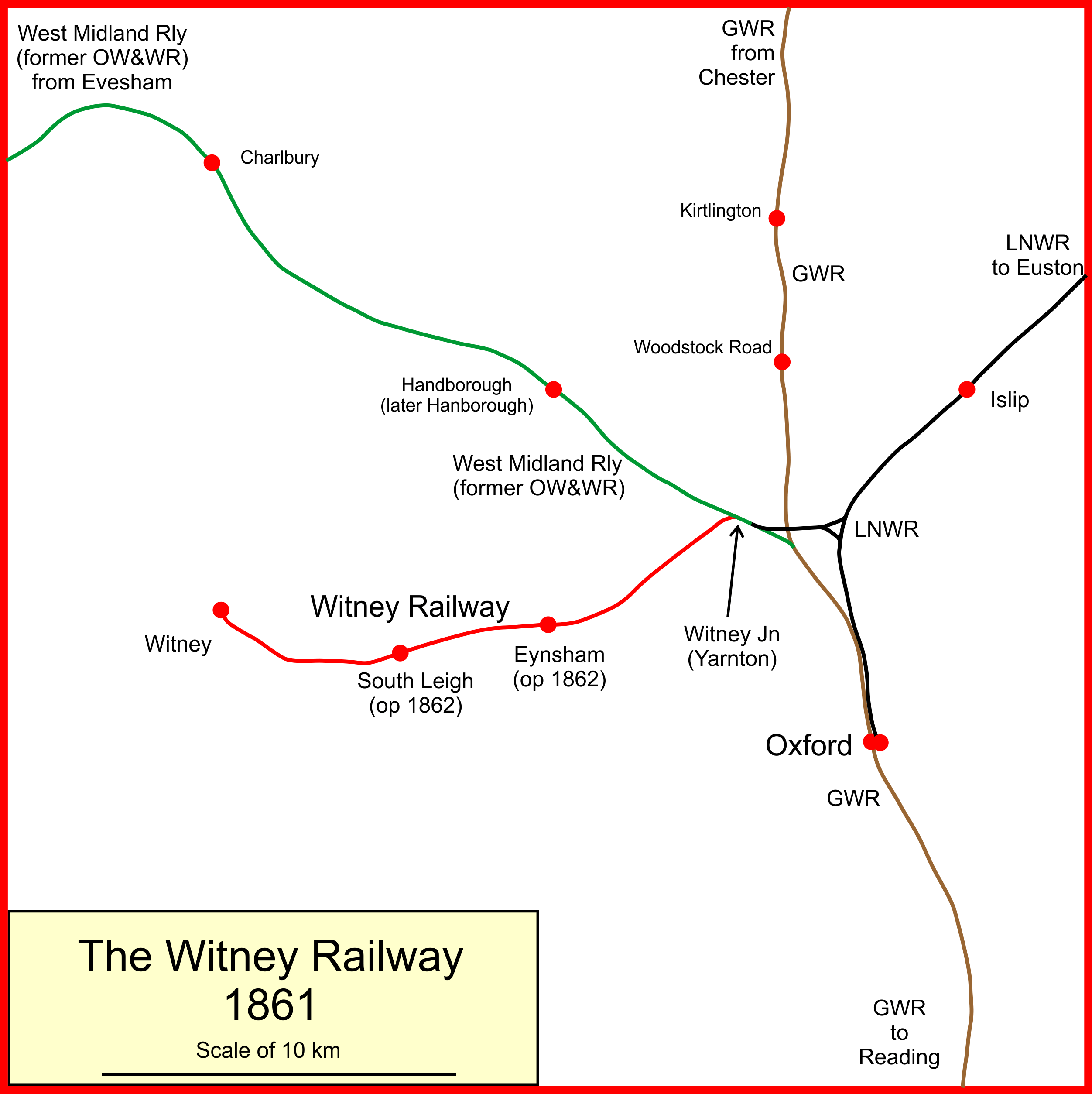 Map of the Witney Railway system England on opening in 1861